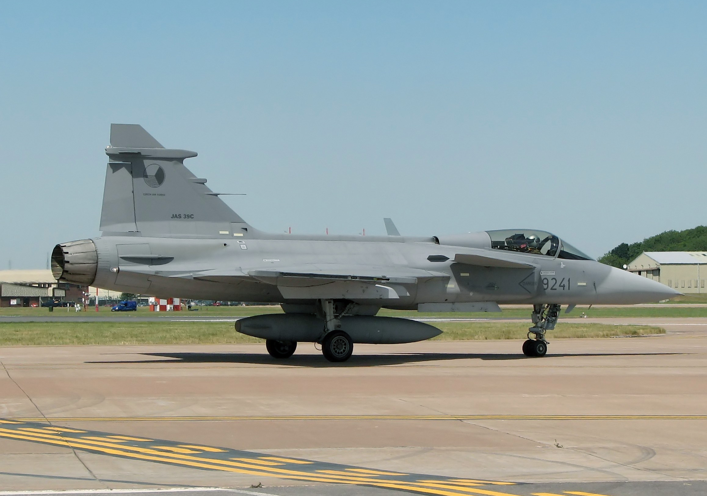 Saab JAS 39C Gripen (identifier 9241) of the Czech Republic Air Force taxis for takeoff at the Royal International Air Tattoo, Fairford, Gloucestershire, England. Photographed by Adrian Pingstone on July 17th 2006 and released to the public domain.